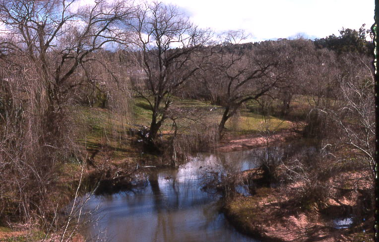 coonabarabran, australia